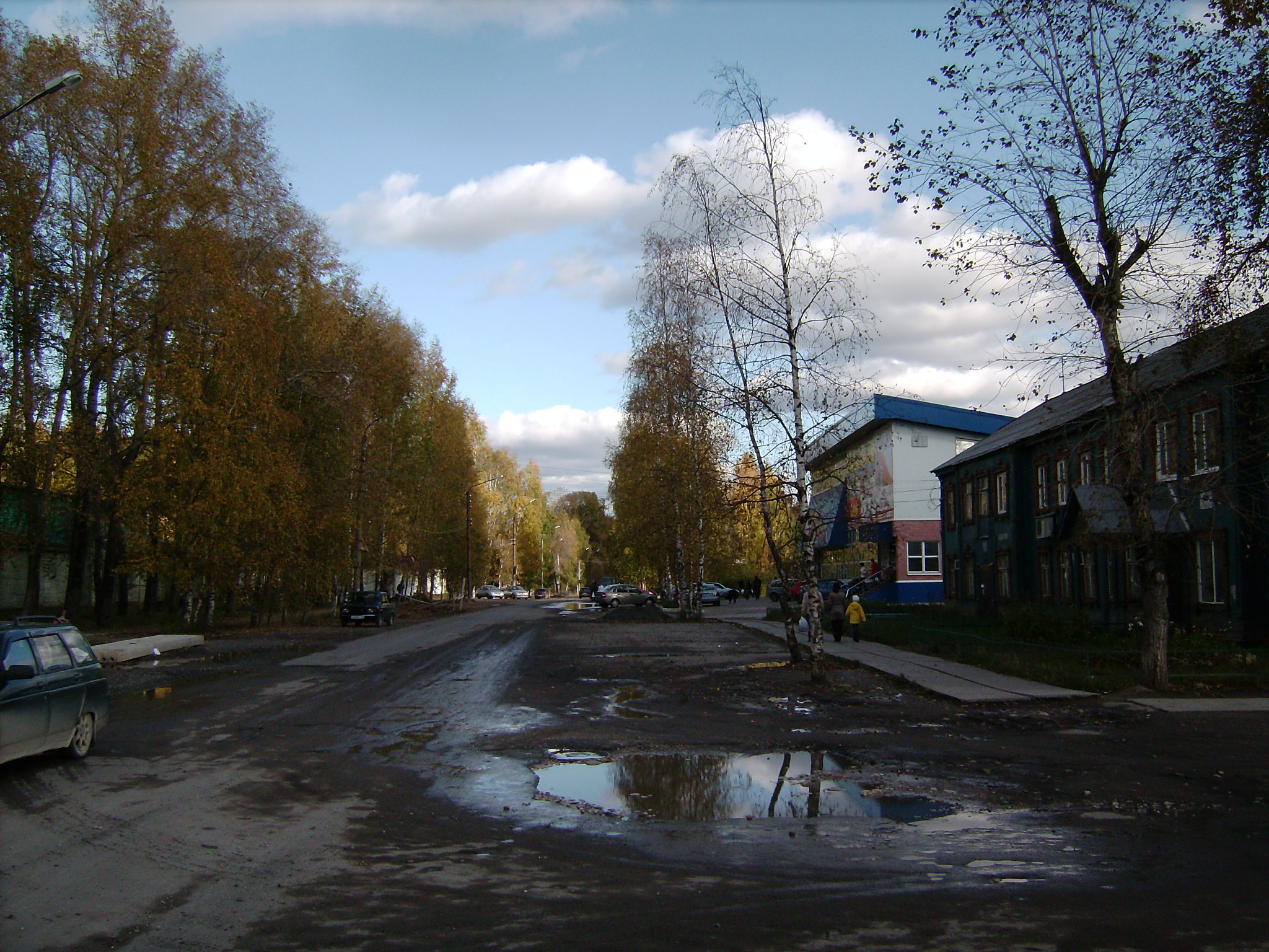 Plesetsk settlement, Partizanskaya street cresses Lenin street, to the right is the City Hall